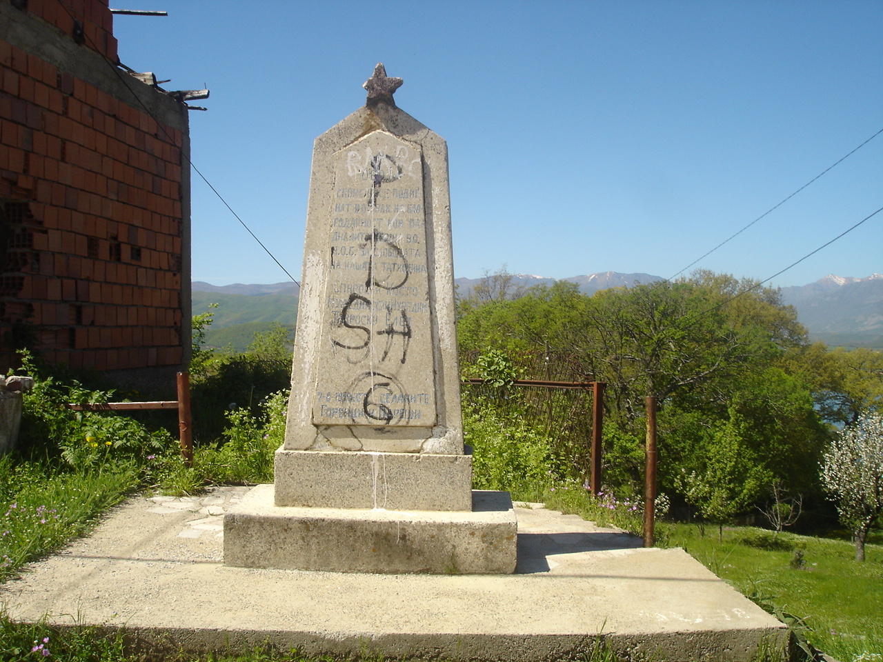 Monument for the WWII village of Gorenci, near Debar, Macedonia